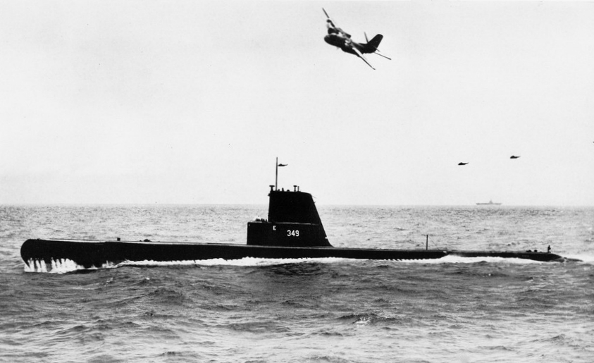 A U.S. Navy Grumman S2F-3 Tracker assigned to Carrier Anti-Submarine Air Group 57 (CVSG-57) aboard the aircraft carrier USS Hornet (CVS-12) flying over the submarine USS Diodon (SS-349). Hornet, visible in the right background, was deployed to the Western Pacific from 6 June to 21 December 1962.